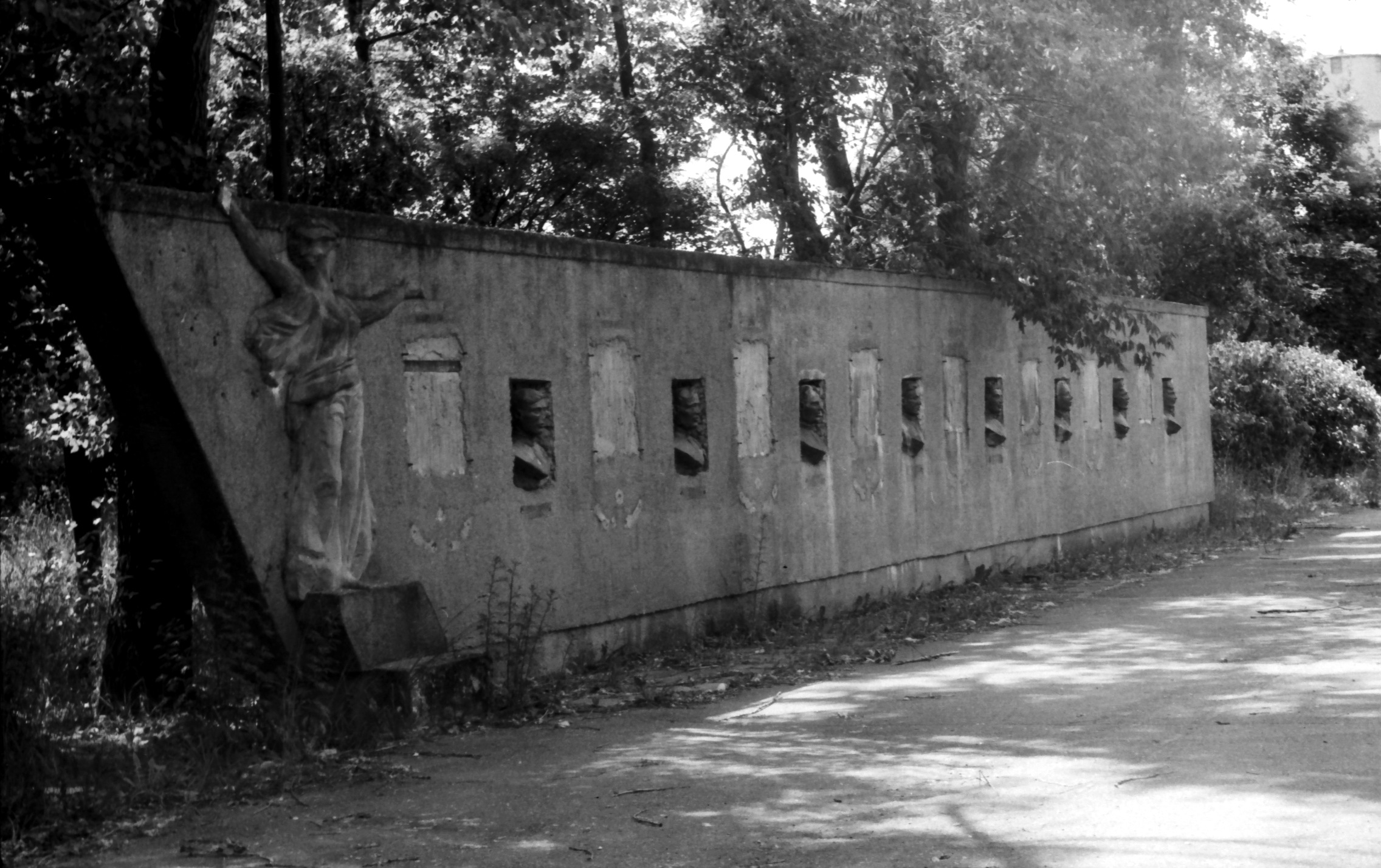 Zokniai military airport 1995, Šiauliai, Lithuania